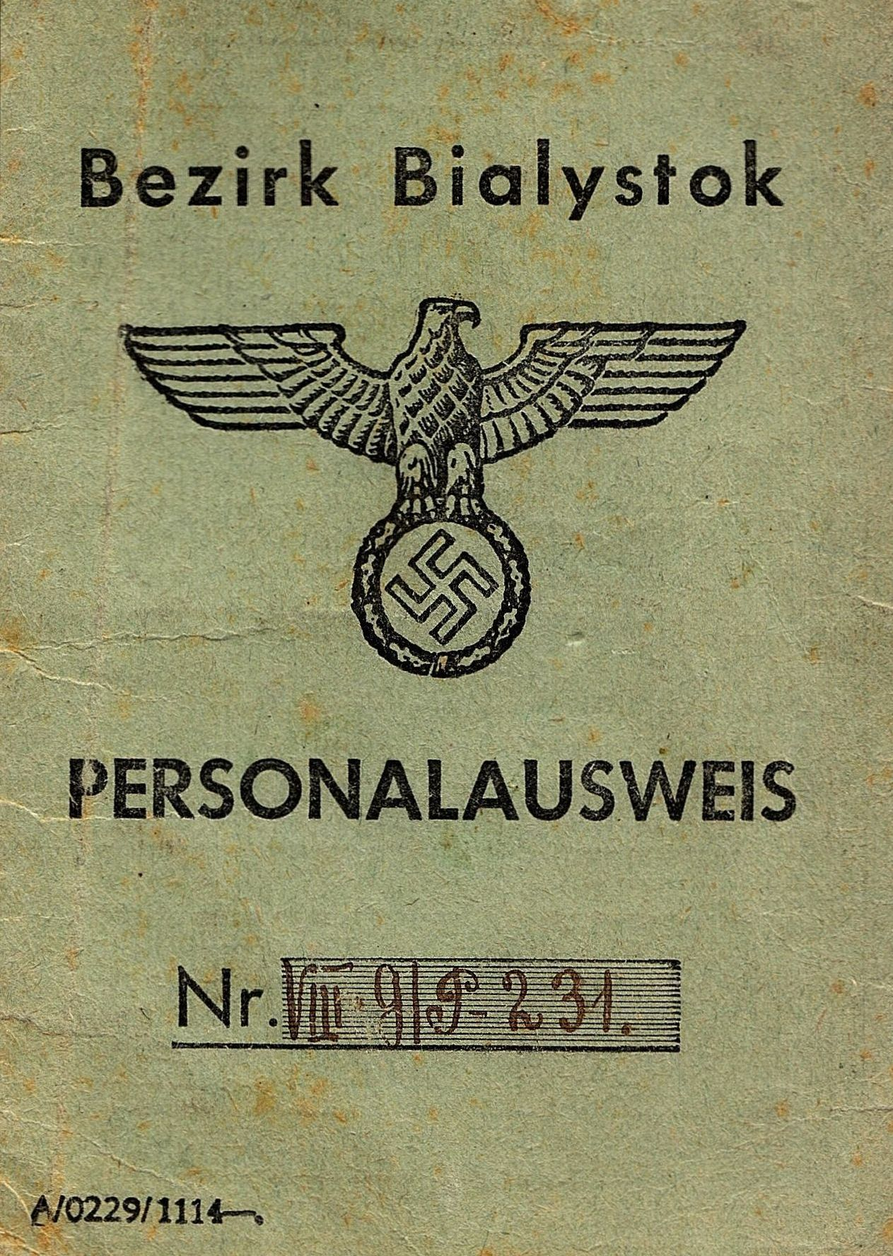 Front page of Personalausweis of Aksenty Packiewicz (born 1859) issued on 31 March 1943 in Jalowka in Bezirk Bialystok